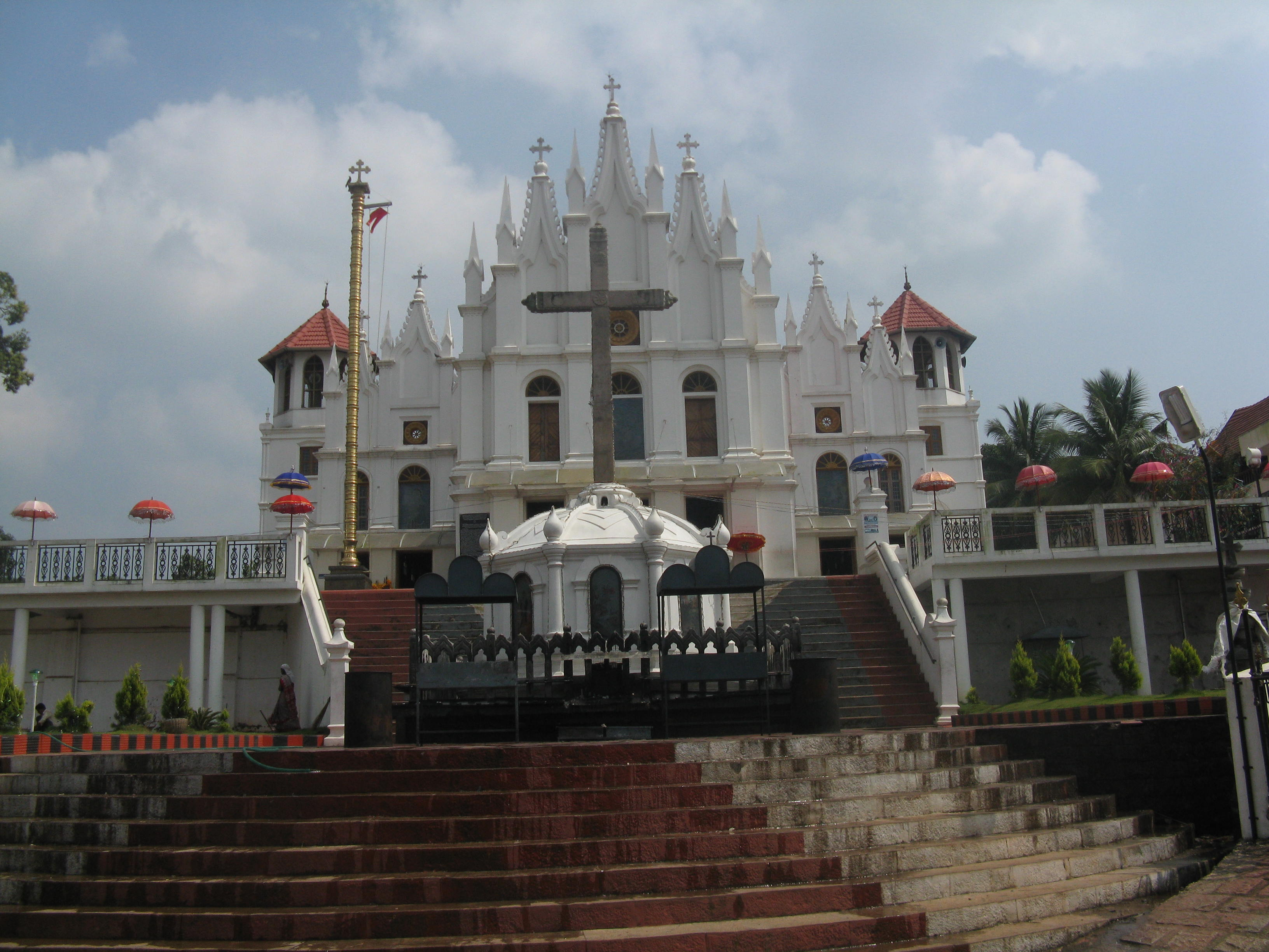 St.George Orthodox Church, Puthuppally, Kottayam, Kerala